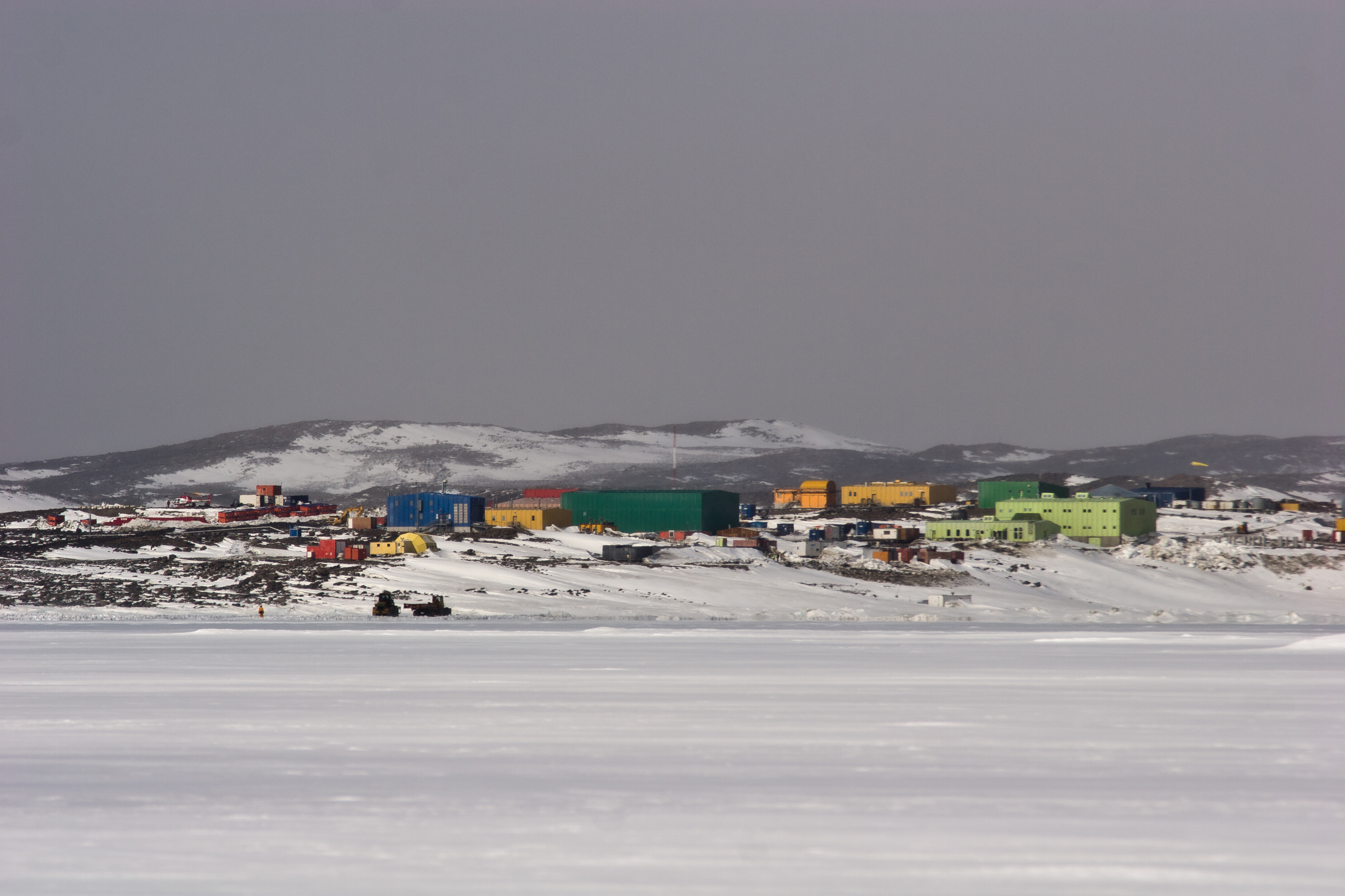 Davis Station Antarctica, Australian Antarctic Programme, November 2005